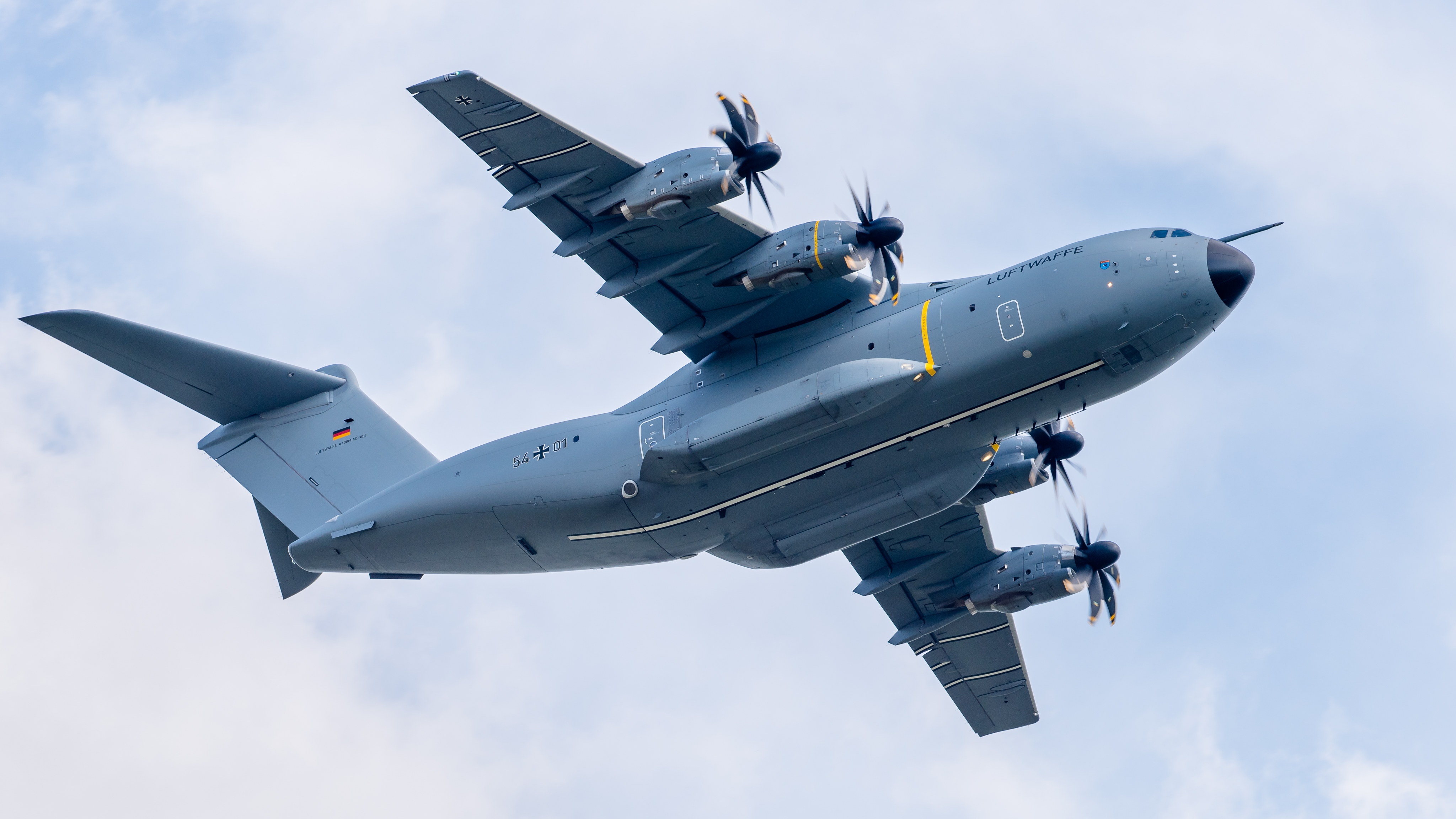 German Air Force Airbus A400M (reg. 54+01, cn 018) at ILA Berlin Air Show 2016.